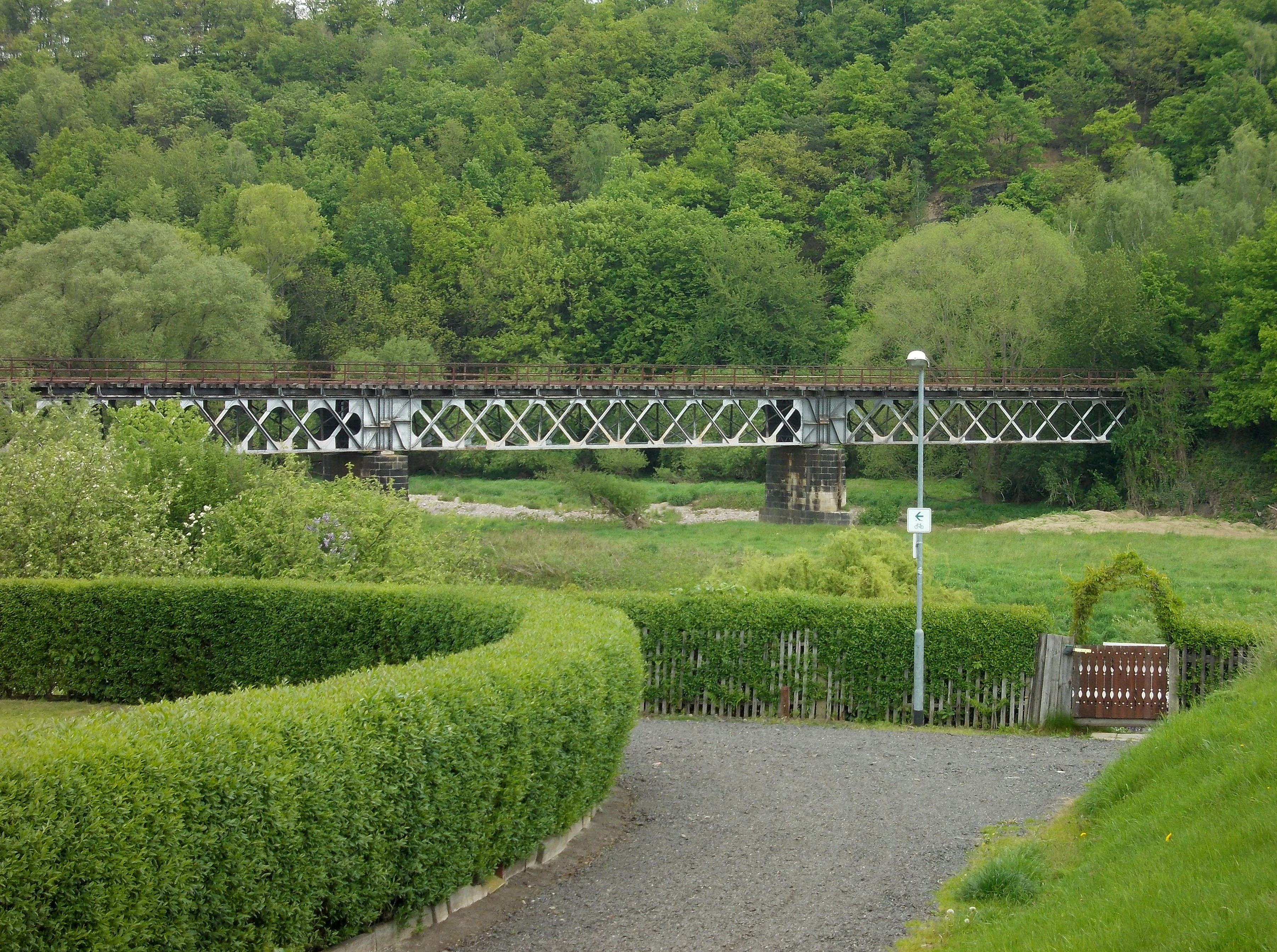 Railway bridge of the former Rochlitz-Waldheim line over the Zwickauer Mulde in Rochlitz (Mittelsachsen district, Saxony)